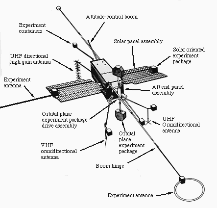 Instruments placement on OGO-1 satellite.